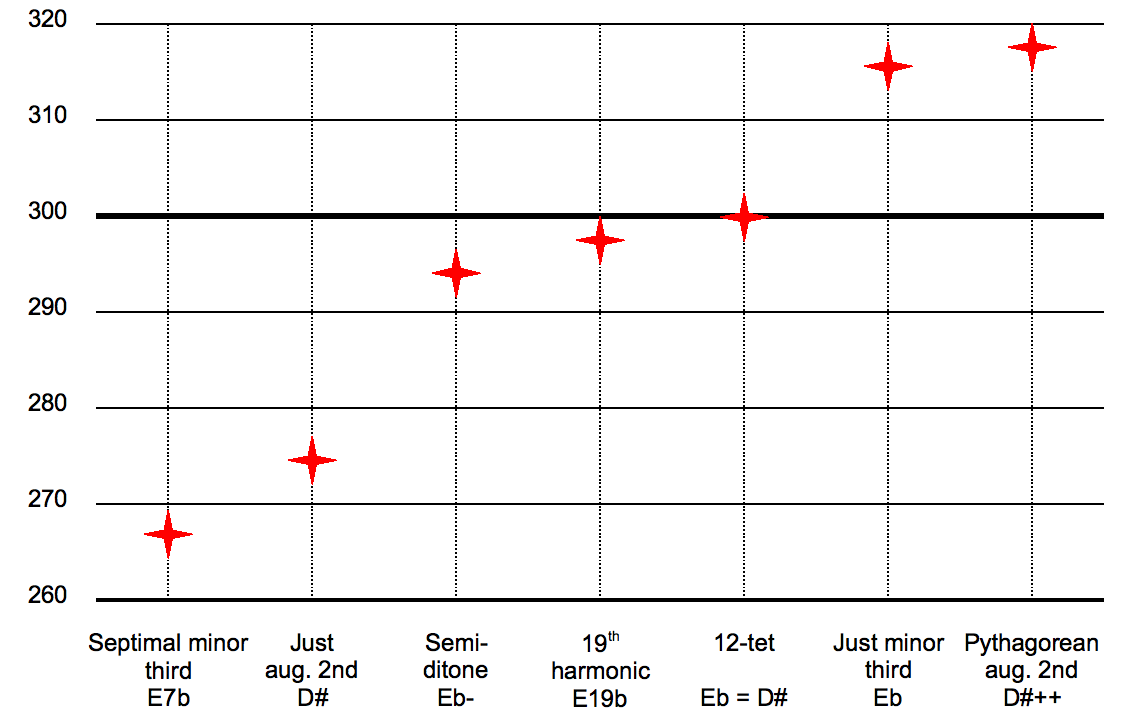 Comparison of notes derived from and near one minor third. E♭ = 7 : 6 = 266.87 D♯ = 75 : 64 = 274.58 E♭- = 32 : 27 = 294.13 E♭ = 19 : 16 = 297.51 E♭ = D♯ = 300 E♭ = 6 : 5 = 315.64 D♯++ = 19683 : 16384 = 317.60